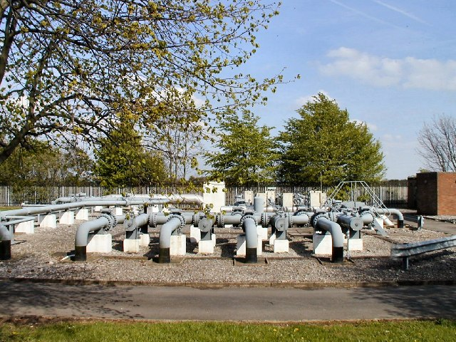 Gas Pumping Station. Identified on the map by its radio mast.